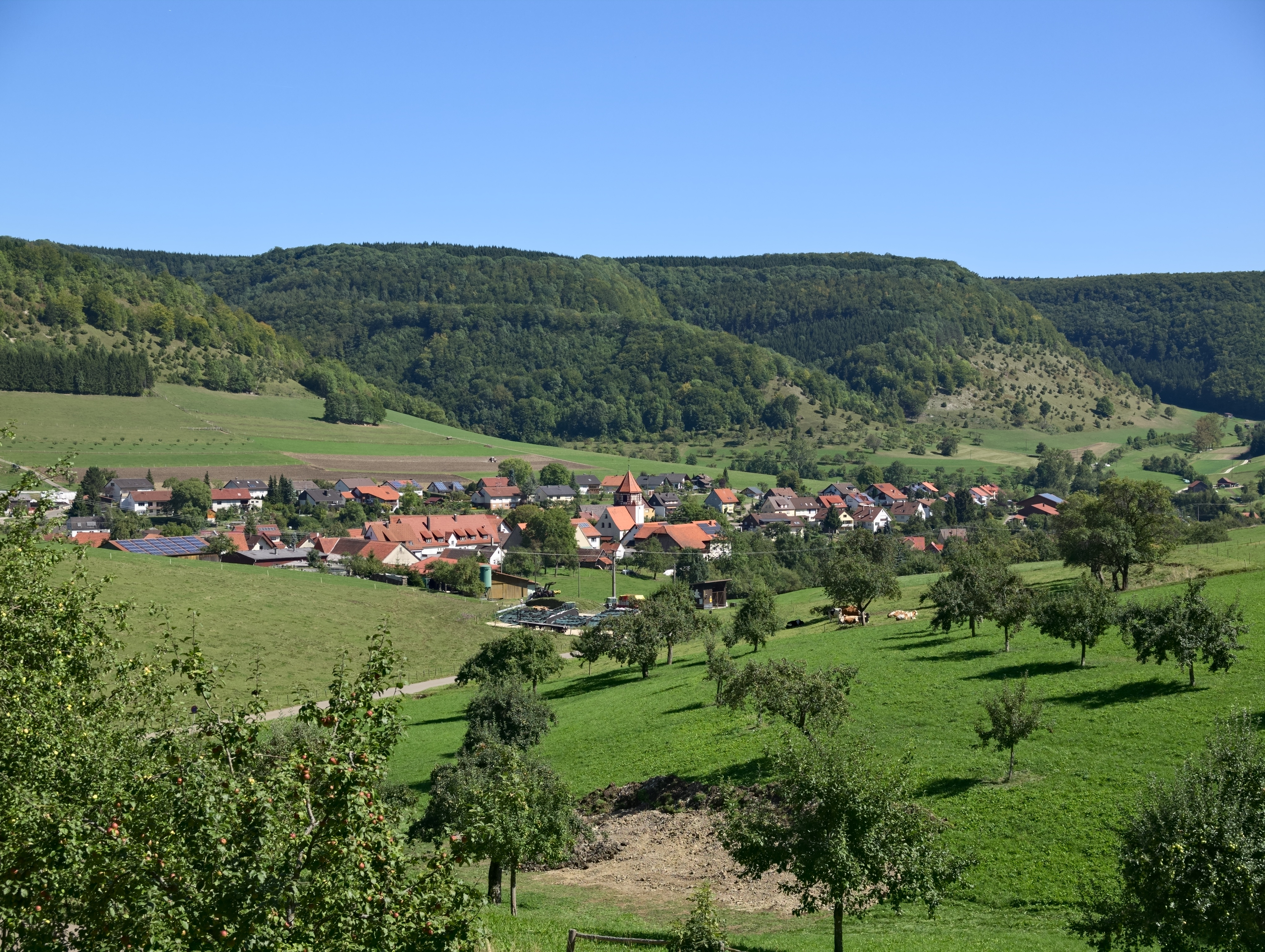 Degenfeld, Schwäbisch Gmünd, Germany, viewed from the west